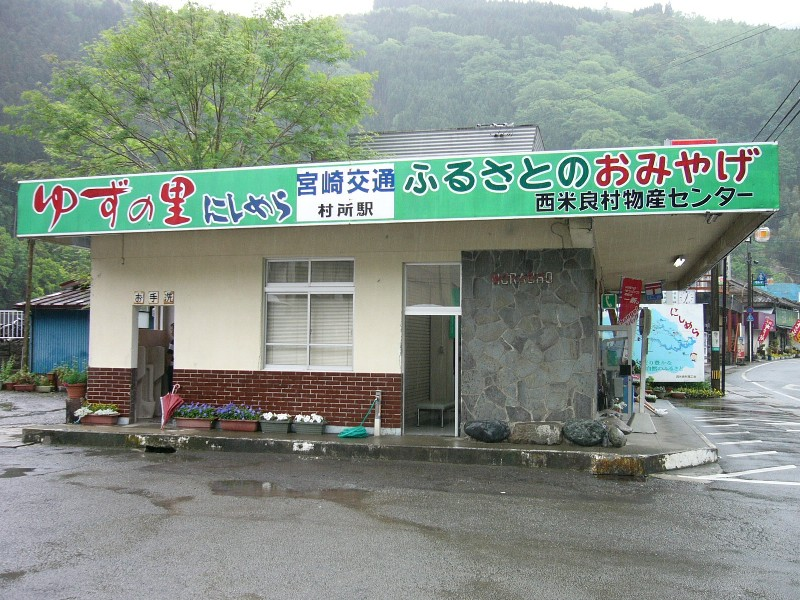 Murasho Bus Station in Nishimera Village, Miyazaki Prefecture, Japan. The bus station had been operated by JNR Bus and JR Kyushu Bus until 1998, then by Miyazaki Kotsu and Nishimera Municipal Bus thereafter